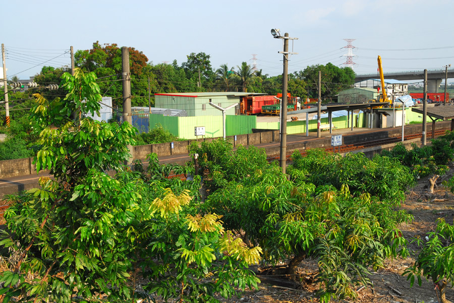 BaLin Station is a small local train station of Taiwan's Western main rail line. Outside the station we can see a big pile of Guava trees, the name sake of the station (the Taiwanese name of Guava Woods is "BaTzaiLin", later shorten to "BaLin").